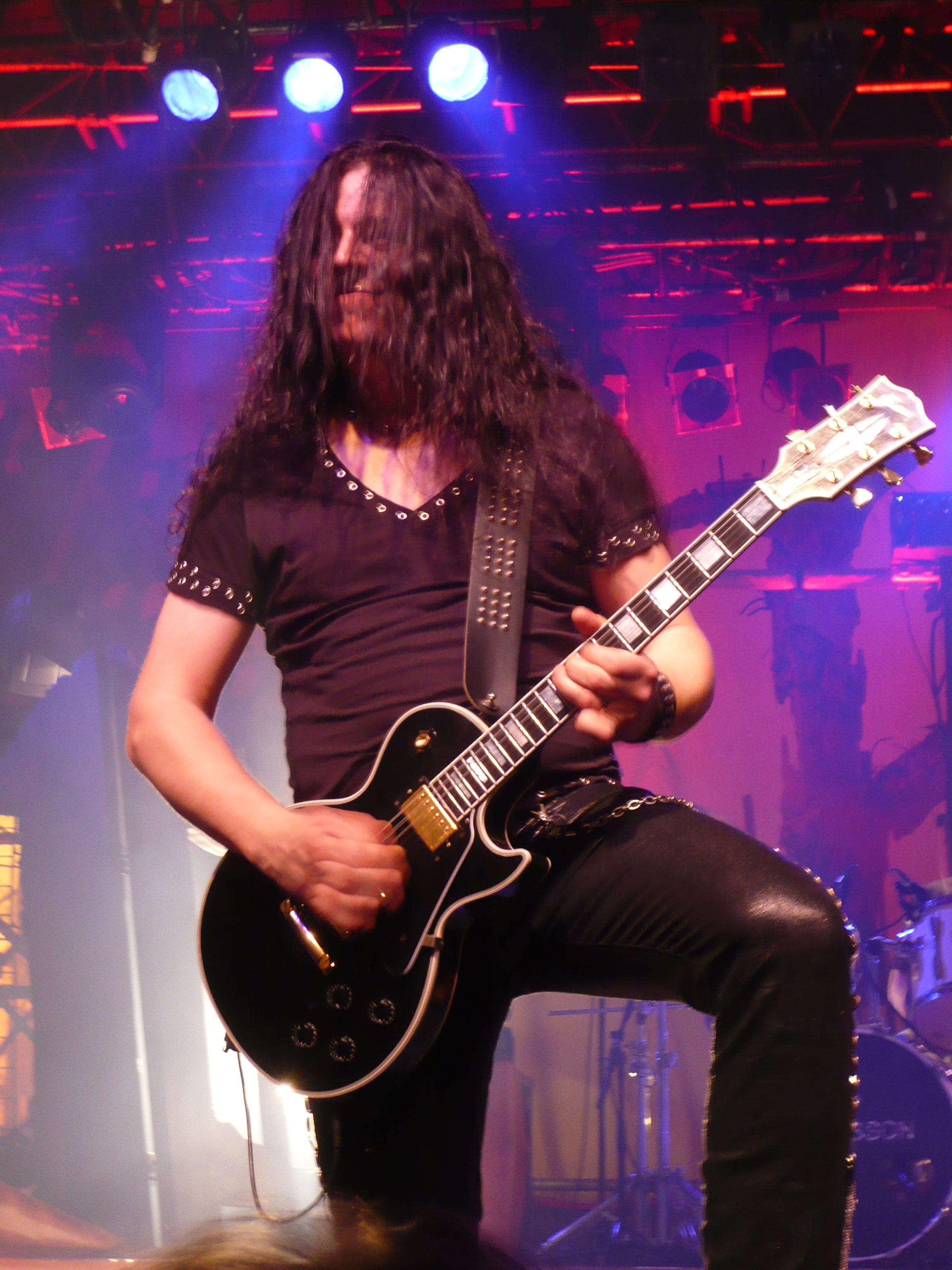 Pontus Norgren performing with Hammerfall.